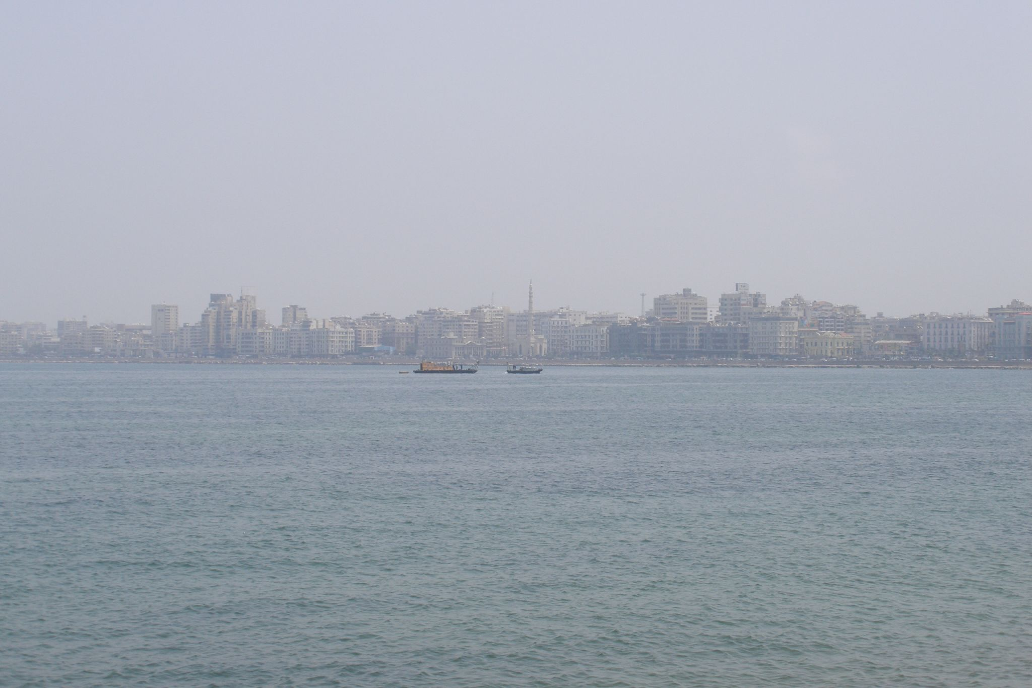 Alexandria (population of 3.5 to 5 million), is the second-largest city in Egypt, and its largest sea port. Alexandria extends about 20 miles (32 km) along the coast of the Mediterranean sea in north-central Egypt. The city of Alexandria was named after its founder, Alexander the Great, and as the seat of the Ptolemaic rulers of Egypt, quickly became one of the greatest cities of the Hellenistic world - second only to Rome in size and wealth.